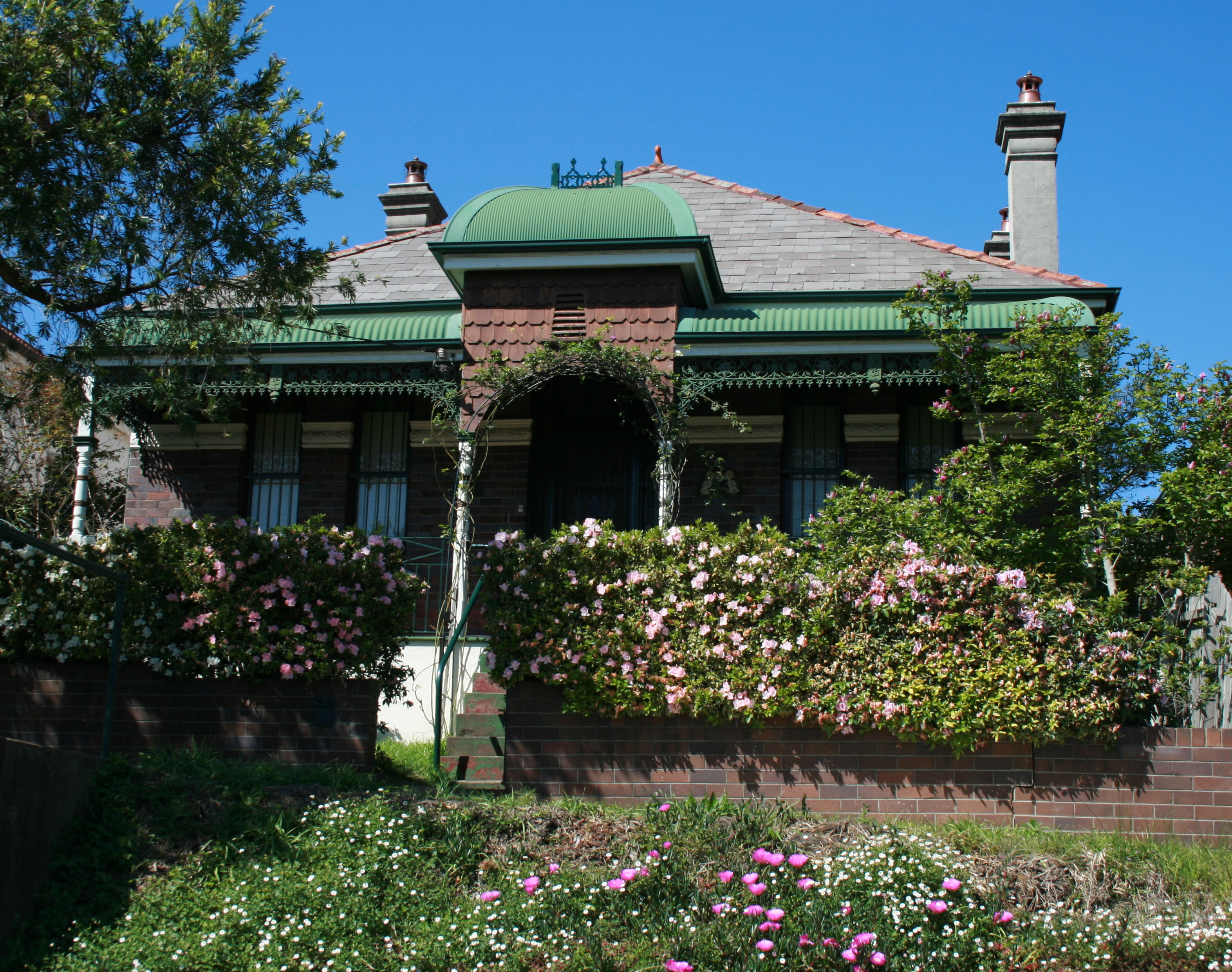 19 Hopetoun St, Hurlstone Park, New South Wales, Australia.